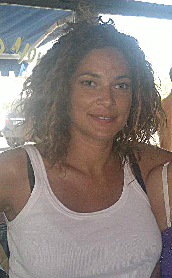 Picture of Italian actress Simona Cavallari